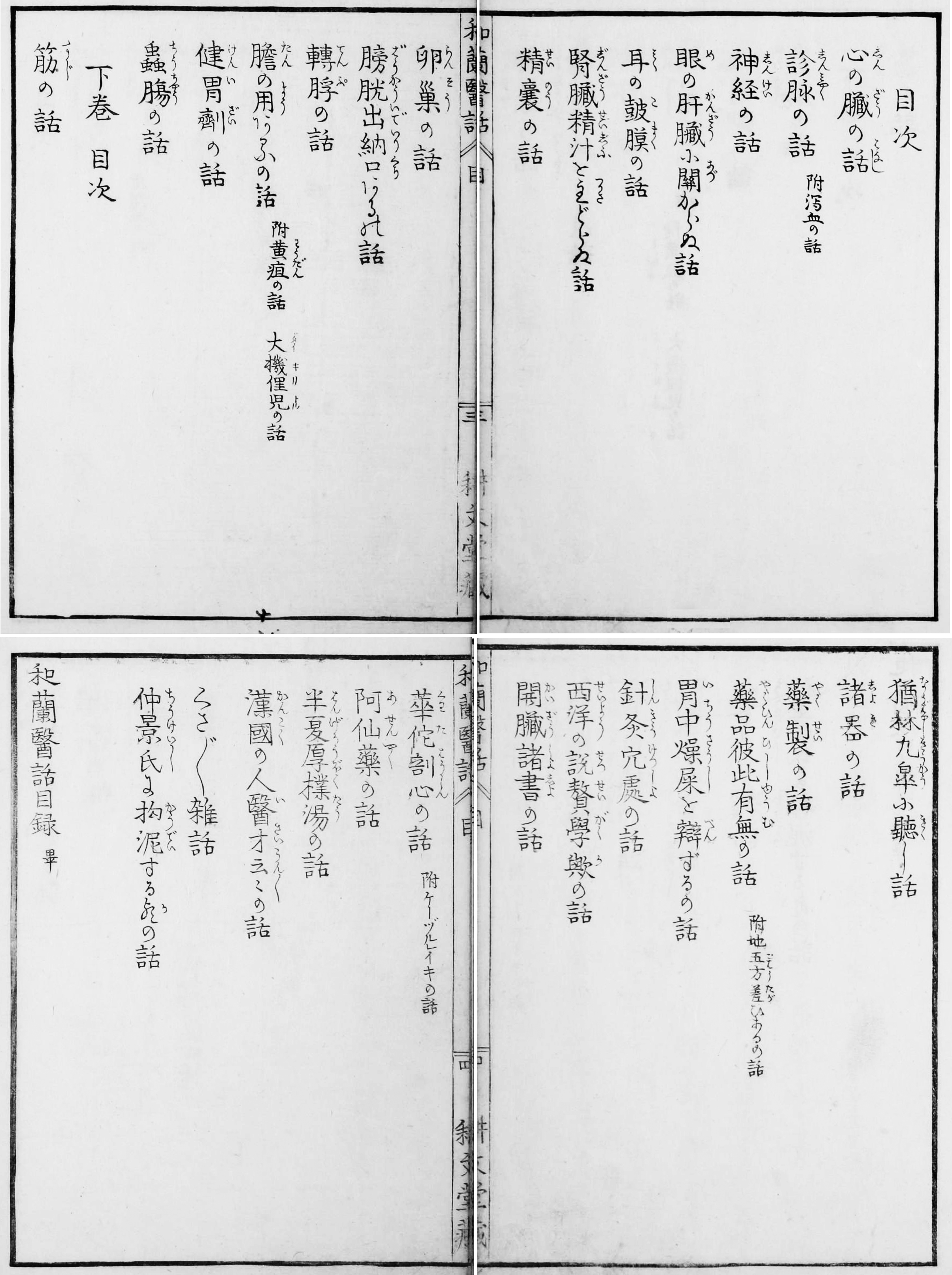 Contents of the book Oranda Iwa by Fujiya Soteki, 1805 (伏屋素狄述『和蘭医話』)